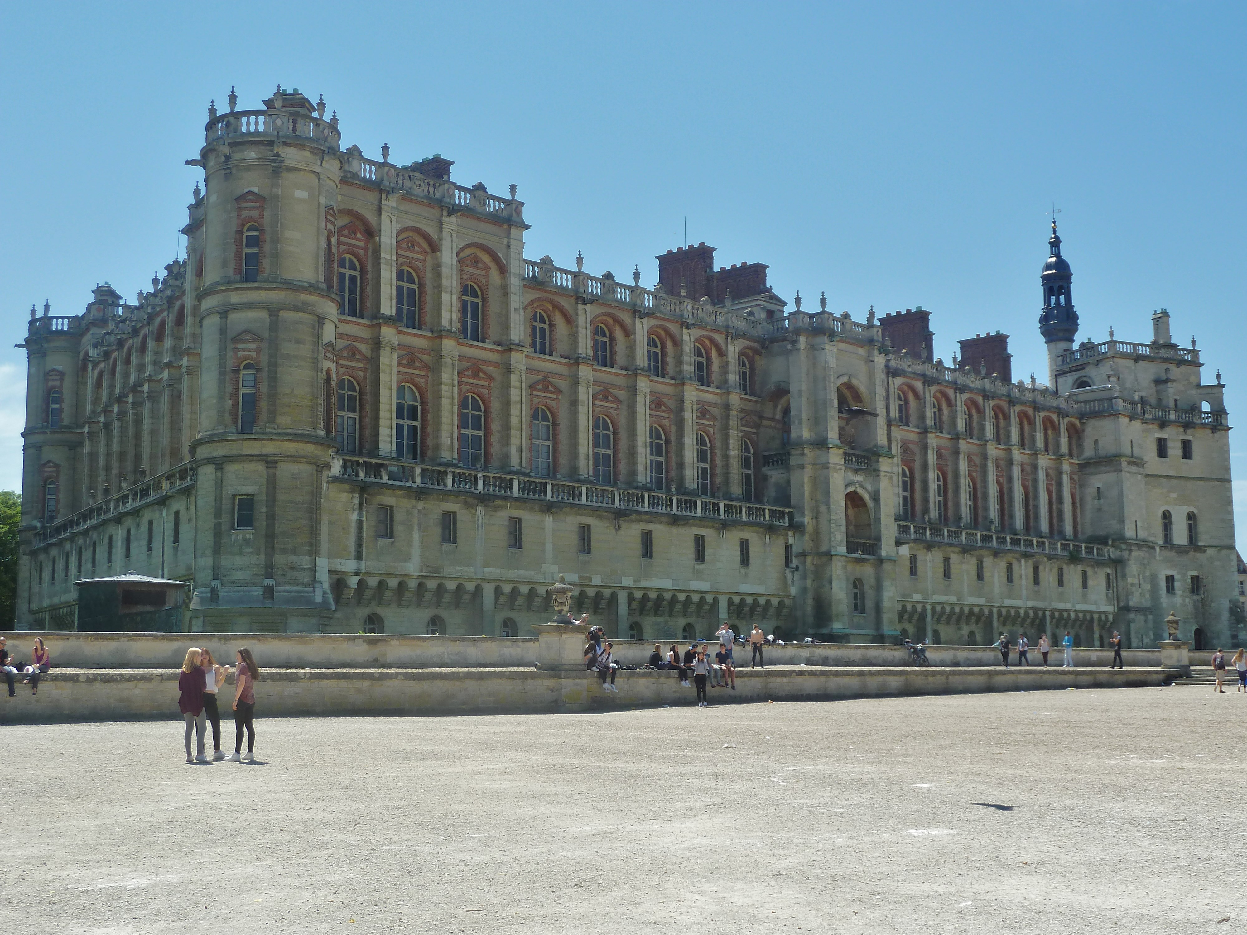 St. Germain en Laye Castle (June 2014)